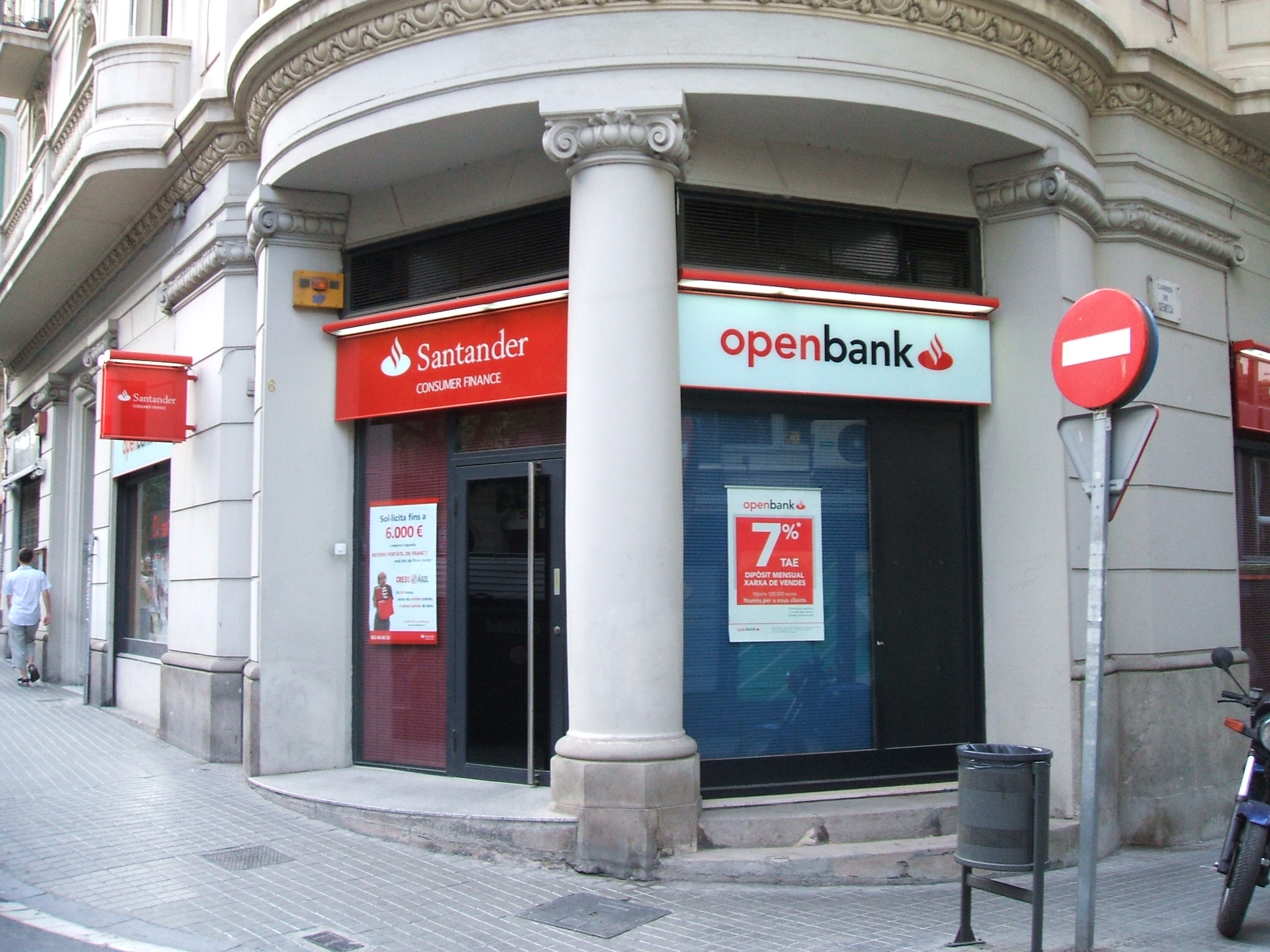 Openbank (Online Bank) - Barcelona - Location: Via Augusta